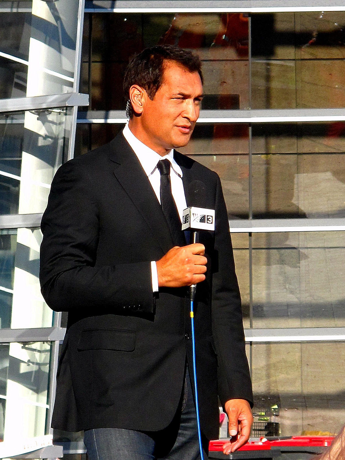 (Wed 2-3-2011) Mike McRoberts of TV3 fronting the current affairs programme CampbellLive broadcast from the Earthquake Command Centre; aftermath of the magnitude 6.3 earthquake in Christchurch on Tuesday 22 February 2011.